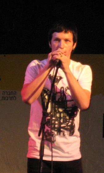 Lee Biran